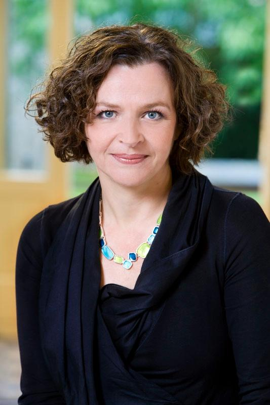 Minister of Health, Welfare and Sport of the Netherlands, Edith Schippers (VVD)